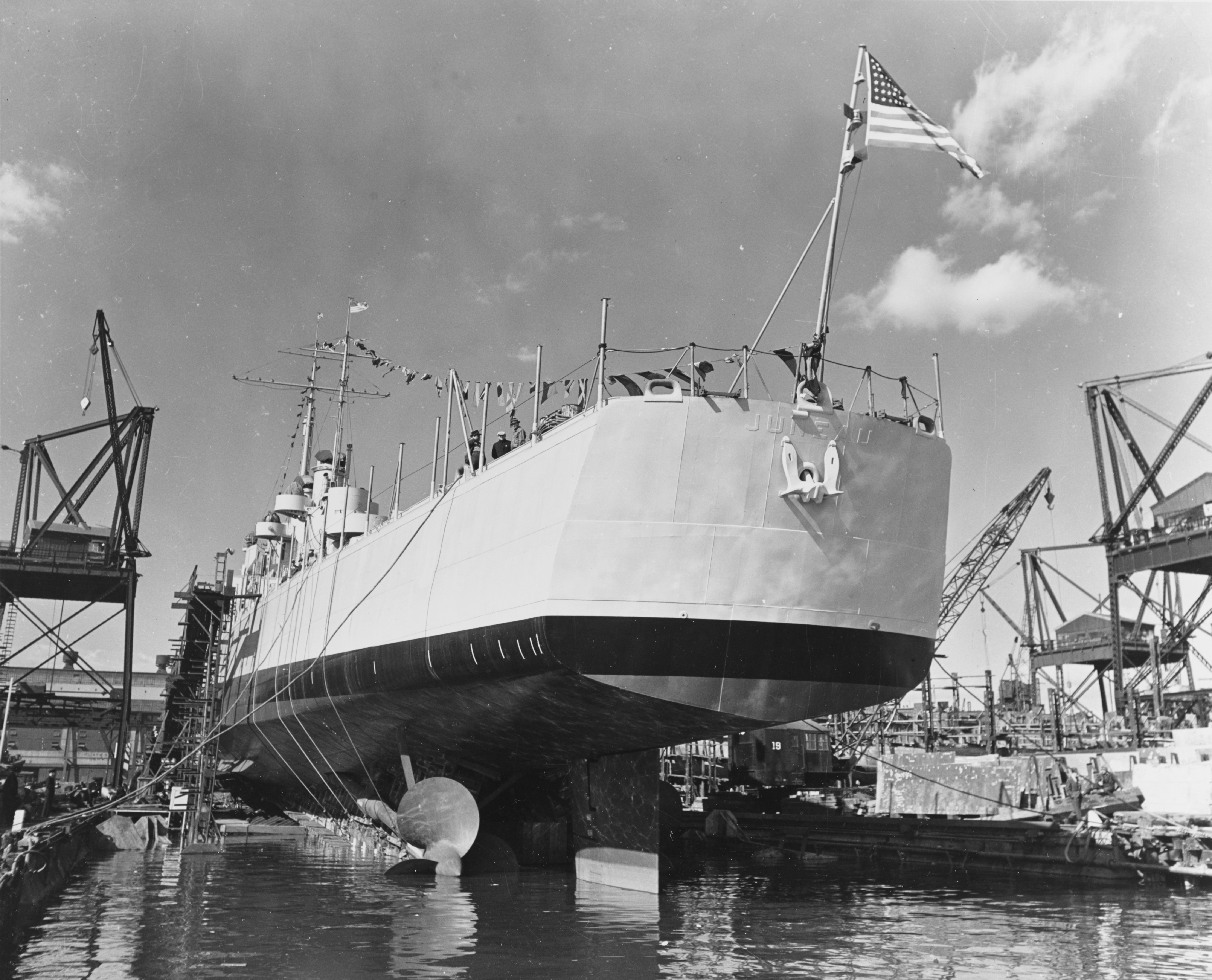 Ready for launching, at the Federal Shipbuilding Company yard, Kearny, New Jersey, 25 October 1941. Photograph from the Bureau of Ships Collection in the U.S. National Archives.